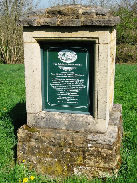 The Origin of the Aston Martin Car The Plaque reads: The Origin of Aston Martin From 1904 to 1925, Aston Hill, part of Lord Rothschild's Estate, was a renown motoring venue. Lionel Martin made his first ascent of this hill. In a tuned Singer car, on the 4th April, 1914. Shortly afterwards, on the 16th May, at the Herts County Automobile and Aero Club Meeting, he was so successful that the sporting light car first registered in his name in March 1915 was called an “Aston-Martin”. It was the start of a legend in the history of the automobile. This plaque was placed here by the Aston Martin Owners Club and Aston Martin Lagonda Limited.